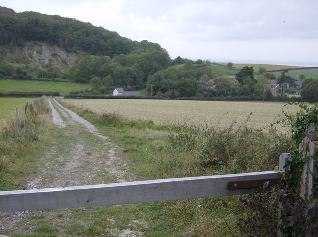 Bridleway descent to Chessell. Visible to the left as a scar on the forested slope of Shalcombe Down, Isle of Wight, is the disused chalk pit where an Aquila Airways Short Solent 3 flying boat crashed in 1957, 50 years prior to this photograph.